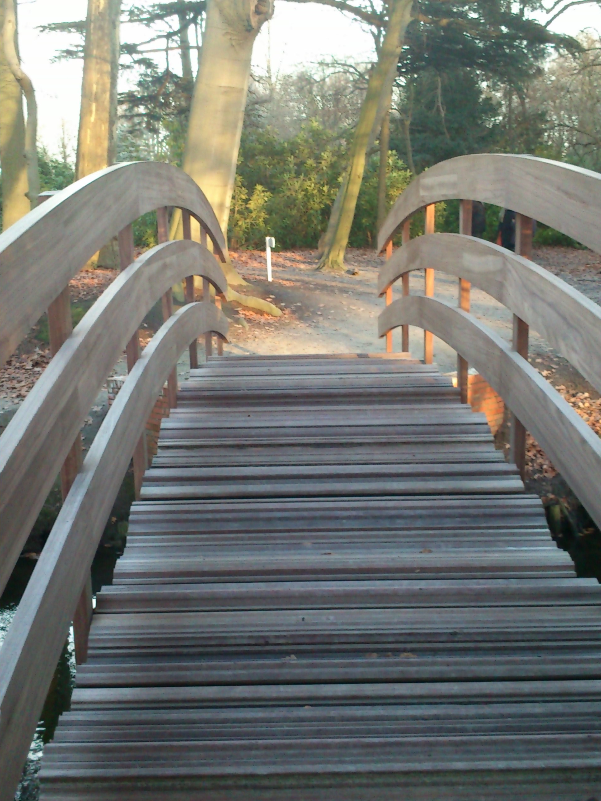 A bridge desingned by the Chinese artist Ai WeiWei in the Middelheimpark, Antwerp, Belgium.